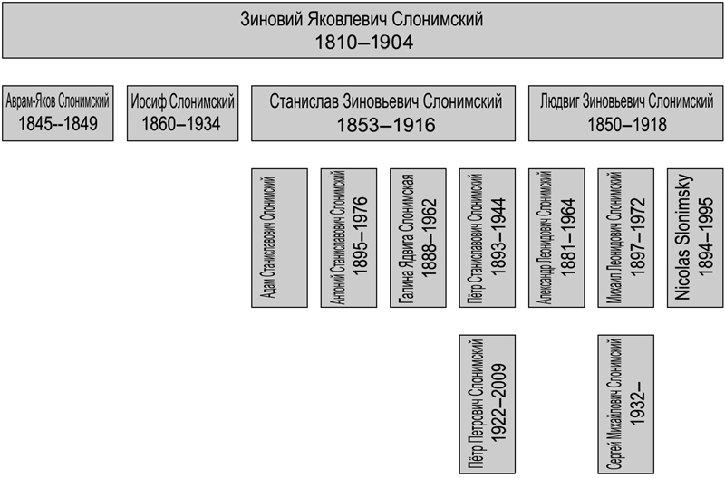 Descendants of Chaim Zelig Slonimski